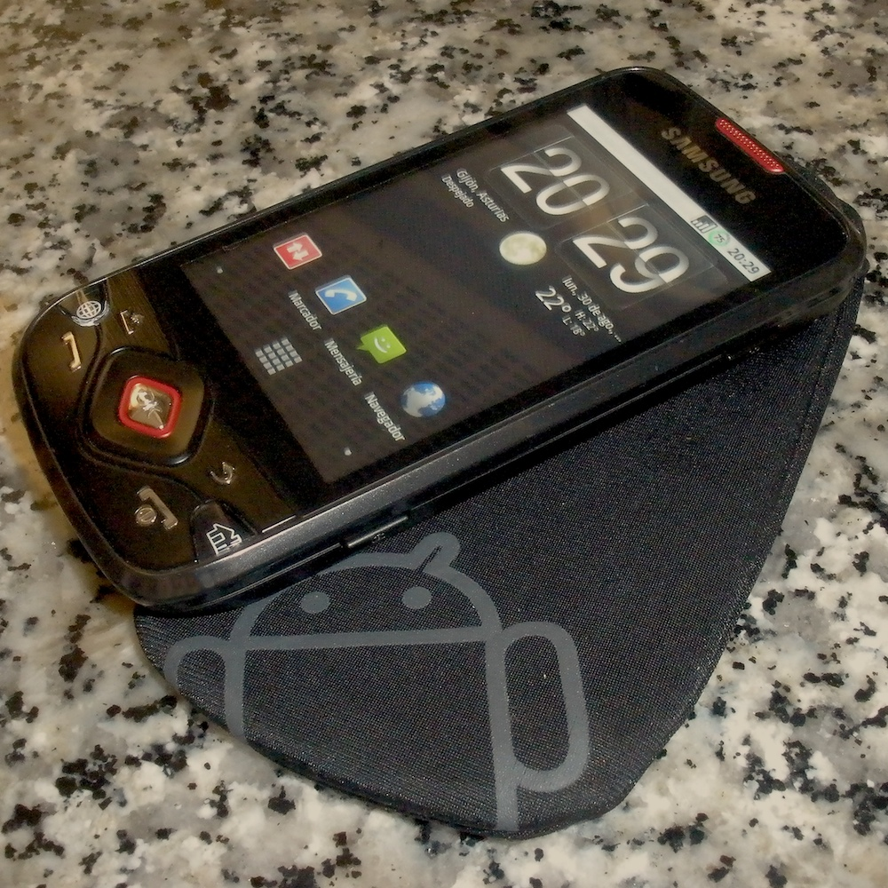 Spica 2.1 Samdroid LK2.09.4